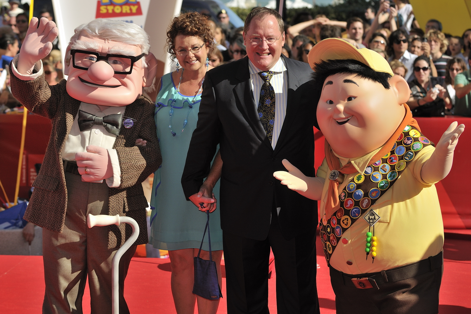 John Lasseter for Up at the 66th Mostra.